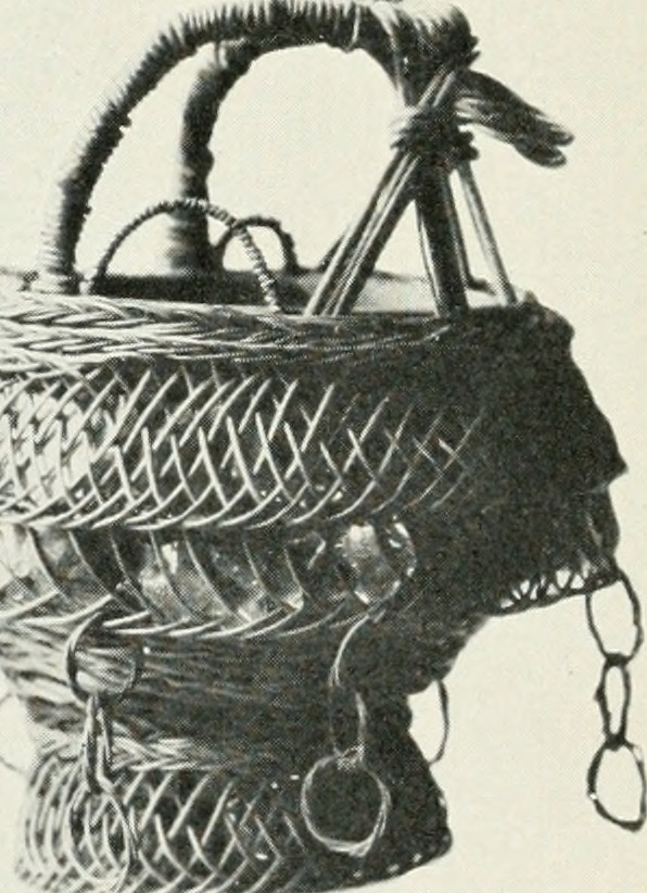 Title: Bulletin - United States National Museum Year: 1877 (1870s) Authors: United States National Museum Smithsonian Institution United States. Dept. of the Interior Subjects: Science Publisher: Washington : Smithsonian Institution Press, (etc.) for sale by the Supt. of Docs., U.S. Govt Print. Off. Text Appearing Before Image: ' Text Appearing After Image: 5 1, Pottery Hot-water Bottle with Depressions for the Feet: 2,Italian ScALDiNO OR Ambulant STOVE: 3,4, Chinese Hand Warmers;5, Kachmerian Wicker Hand Stove For OFscRiprioN of plate see page i; FIRE AS AN AGENT IN HUMAN CULTURE 13 teen gained, and perhaps direction of smoke is the first object sought.It is observed, however, that some natives appear to be apathetictoward smoke, and primitive appearing house fires among many-tribes have little provision for carrying smoke away. In a sense theaboriginal house may be conceived as a protection to the fire and thestructure itself a chimney. In pre-Columbian times there were nochimneys in the Western Hemisphere. The chimney was early in-troduced in America, principally from Spanish sources. There is achimney of brick in Gloucester County, Virginia, which is reputed tohave been Powhatans; in any case it belongs to early colonial times.The Pueblo Indians, being practical housebuilders and willing tomake improvements, adopted the chimney many